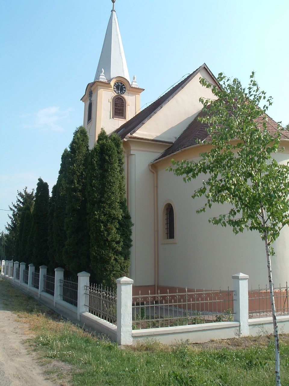 Perenye, The Roman Catholic Church. Szent Ágota római katolikus templom